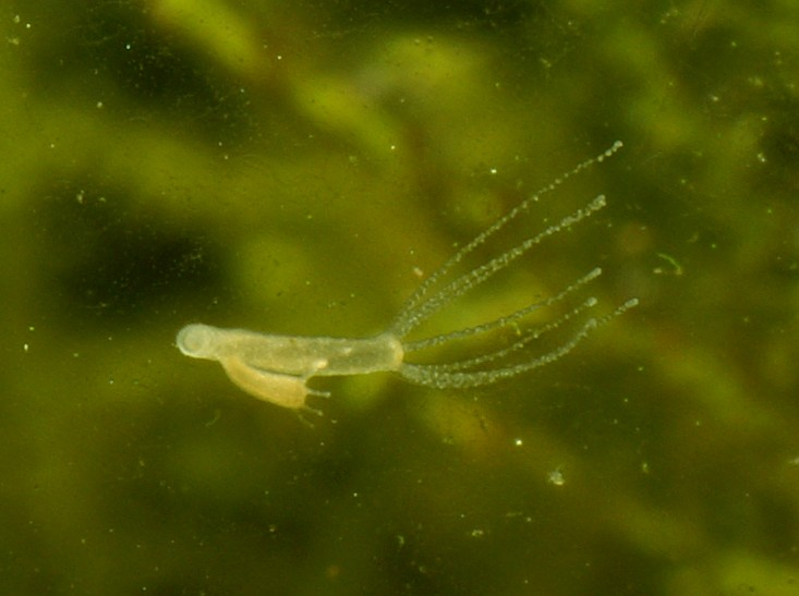 Hydra